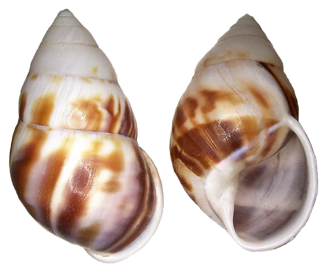 Photo of abapertural and apertural view of the shell of Amphidromus perversus. Size: 40 x 22 mm. Locality: Indonesia, Bali. Photo: U. Schmidt, 2006.